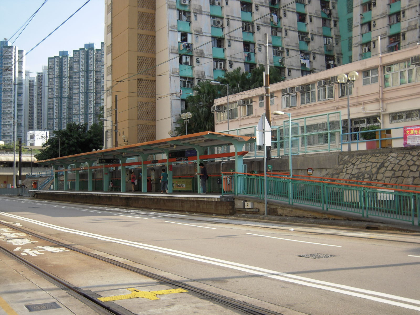 LRT Tai Hing (North) Stop, MTR HK